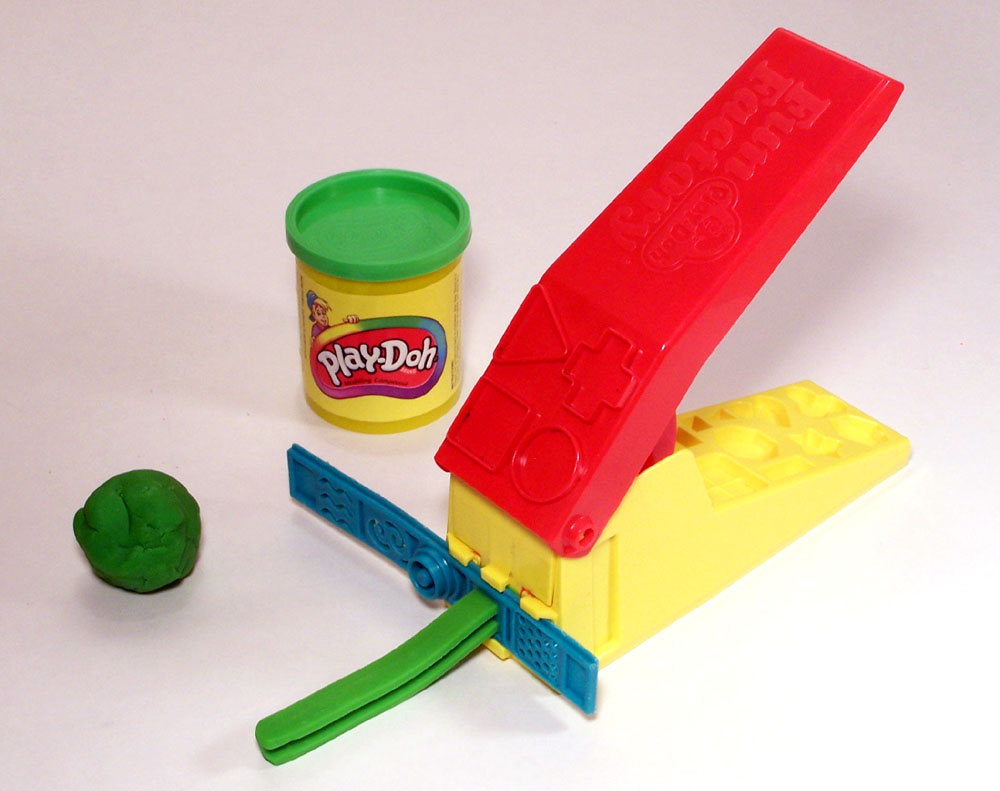 Green Play-Doh with can and accessory toy (Play-Doh is a trademark of Hasbro).